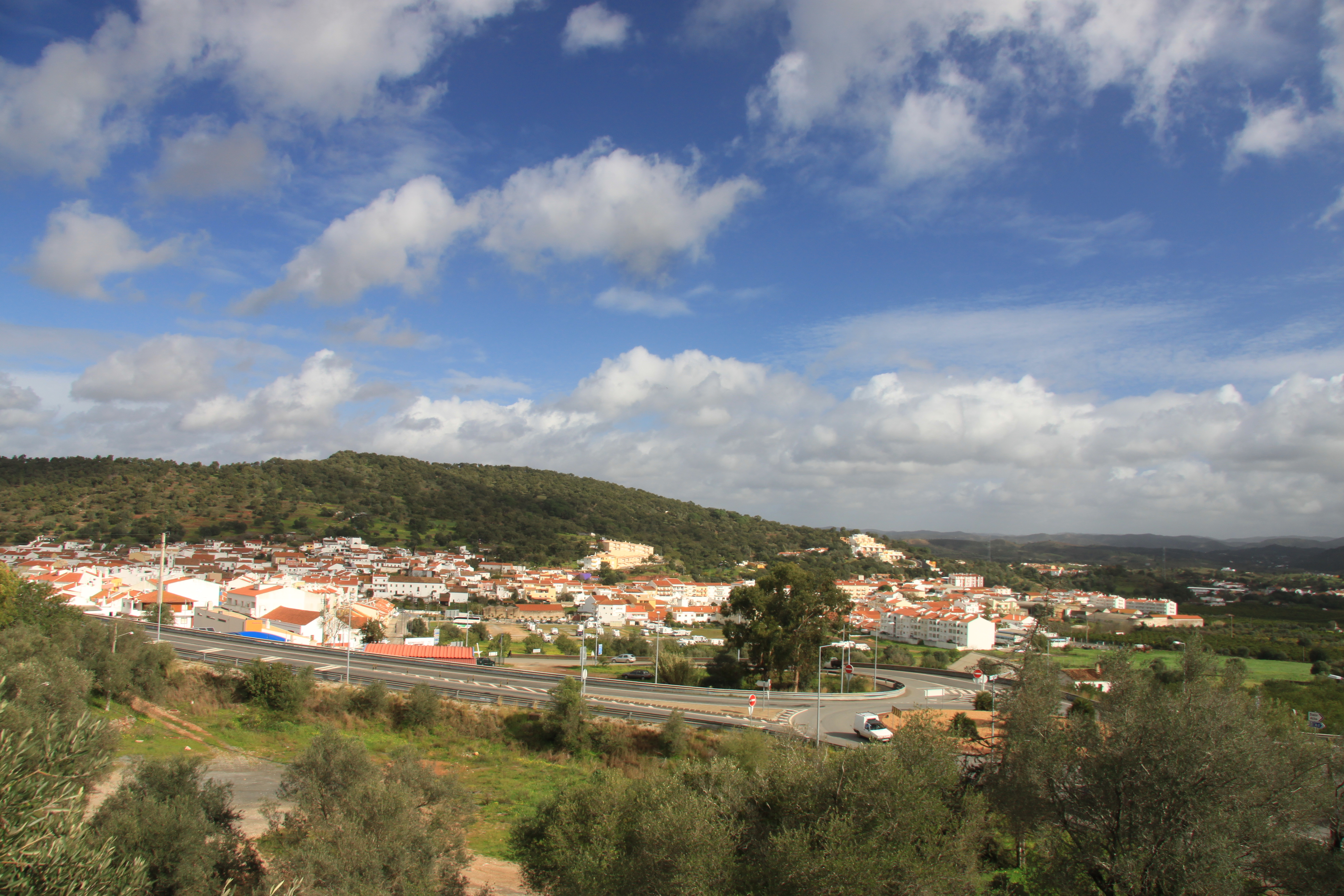 São Bartolomeu de Messines - view from the windmill